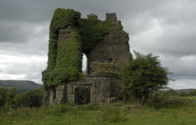 The Ivy Tower. The ruin of a former two-storey castellated tower built (circa 1780) by the architect John Johnson for the Mackworth family of the Gnoll Estate, Neath